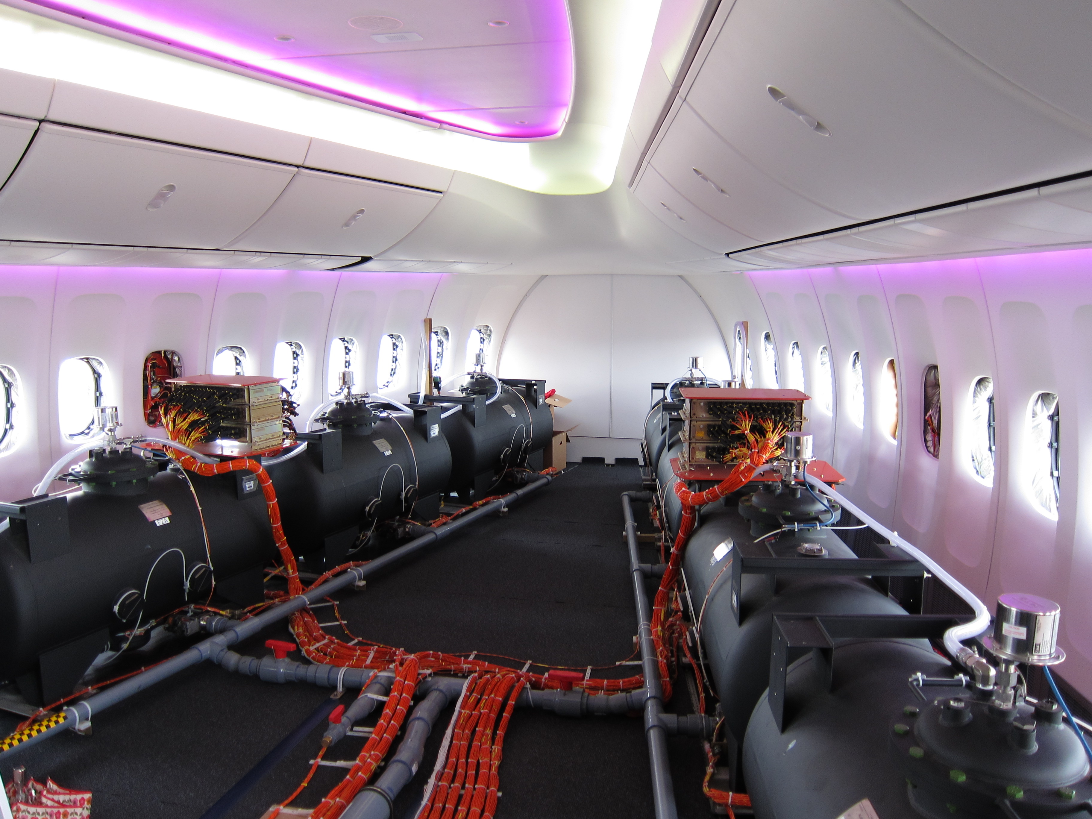 Nose section of the 747-8I prototype cabin. The prominent black tanks store water which is shifted longitudinally (through the gray plumbing) in the aircraft during test flights. This allows precise control of the center of gravity position and measurement of the corresponding stability and control margins. Also visible are the flight test pressure probe equipment, cabled with red wires and connected to dynamic pressure probes on the outside of the fuselage through specifically-replaced window panes (the right probes were disconnected at the time of the photo).